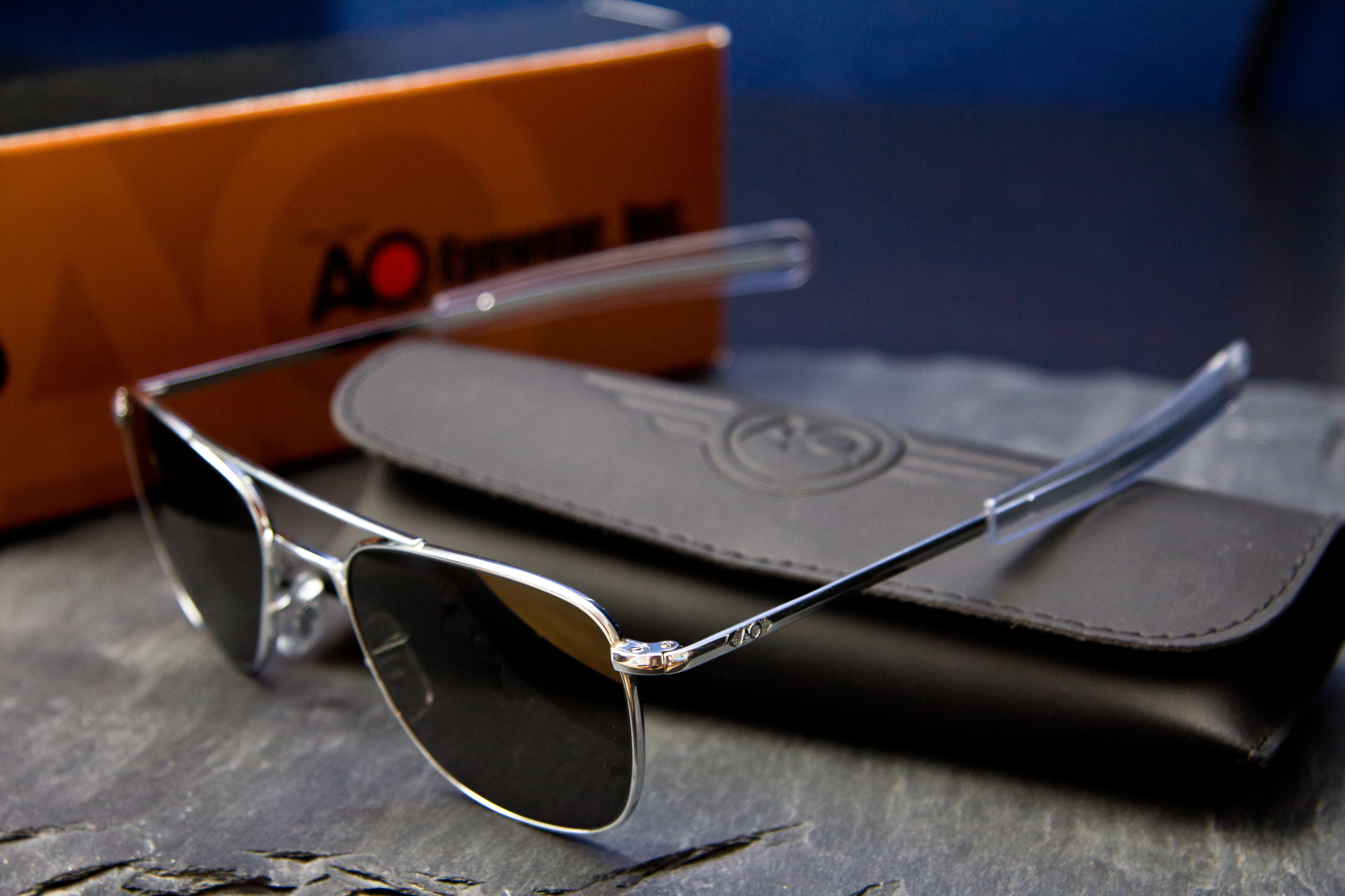 American Optical is one of the contractors that builds milspec Aviator sunglasses for the American pilots, in fact they were the original contractor in the '60s for the product. They are identical in shape and similar in build quality (due to milspec) to the current Randolph Engineering Aviators made famous by Mad Men, but can be found on eBay for a mere 30 to 40 dollars. Comes in a usable case with hard back and velcro closure.